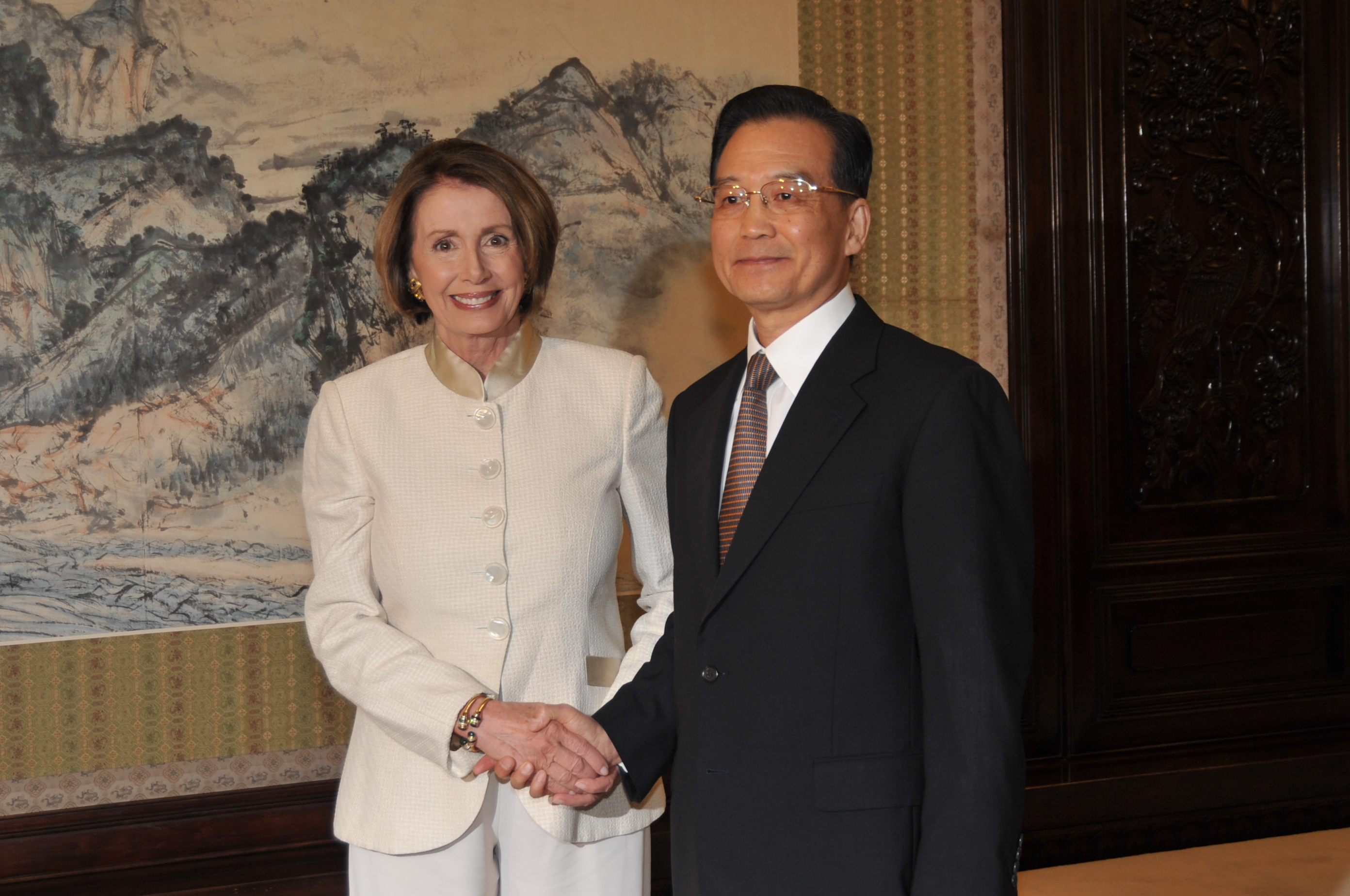 Nancy Pelosi and the Congressional delegation met with Premier Wen Jiabao focusing on issues of concern: North Korea's nuclear testing and missile launch, climate change and clean energy, human rights, intellectual property rights, and the global financial crisis.